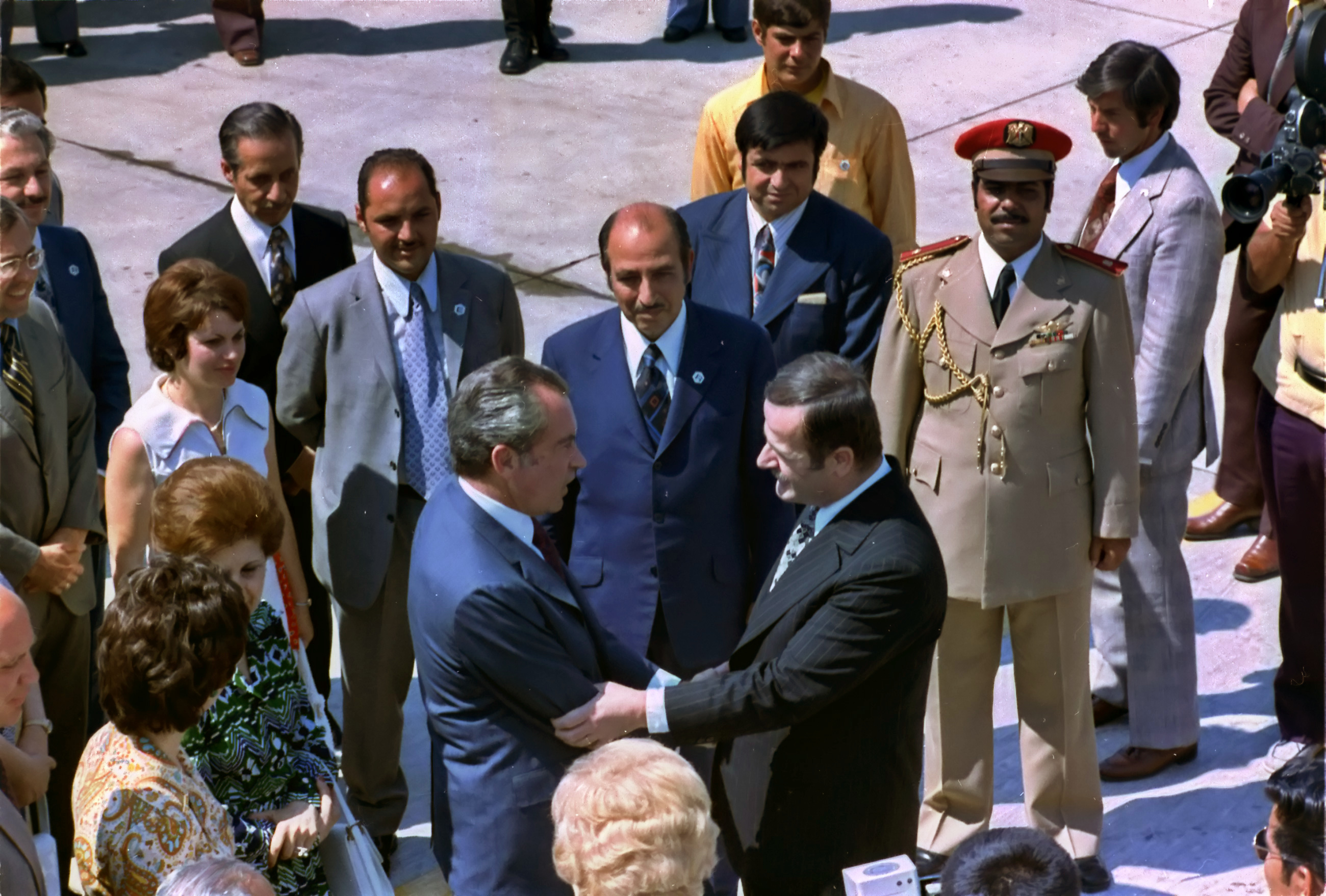 President Hafez al-Assad of Syria greets President Nixon on his arrival at Damascus airport.